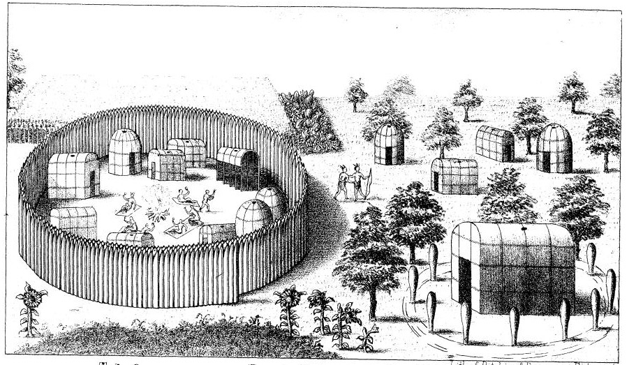 This is an illustration of a Native American village in Virginia during the English-Native American Contact period (circa the early 1600s)